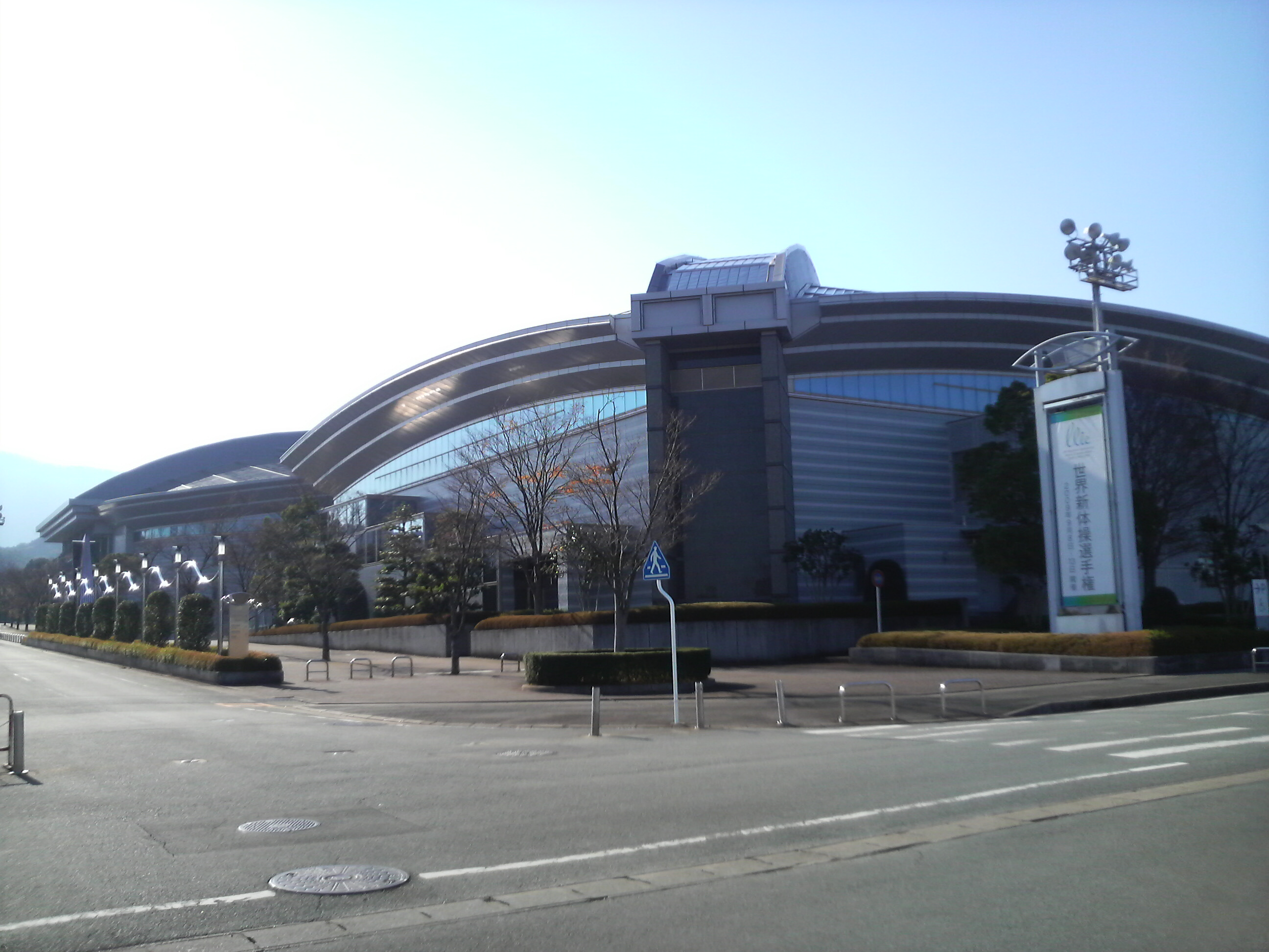 The "Sun Arena" in Mie Prefecture, Japan. This picture was photoed from near the bus stop on the north of an arena. The "Sub arena" is reflected to the front. The "Main arena" is reflected to the left back.